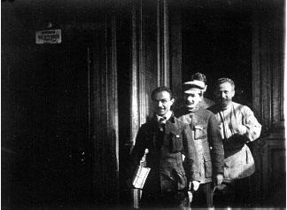 Joseph Stalin with delegates of the 13th Congress of the Russian Communist Party (Bolsheviks).